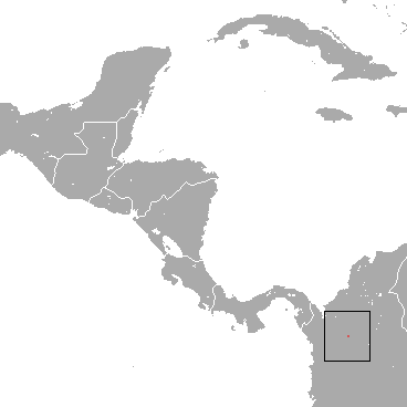 Handley's Slender Mouse Opossum (Marmosops handleyi) range